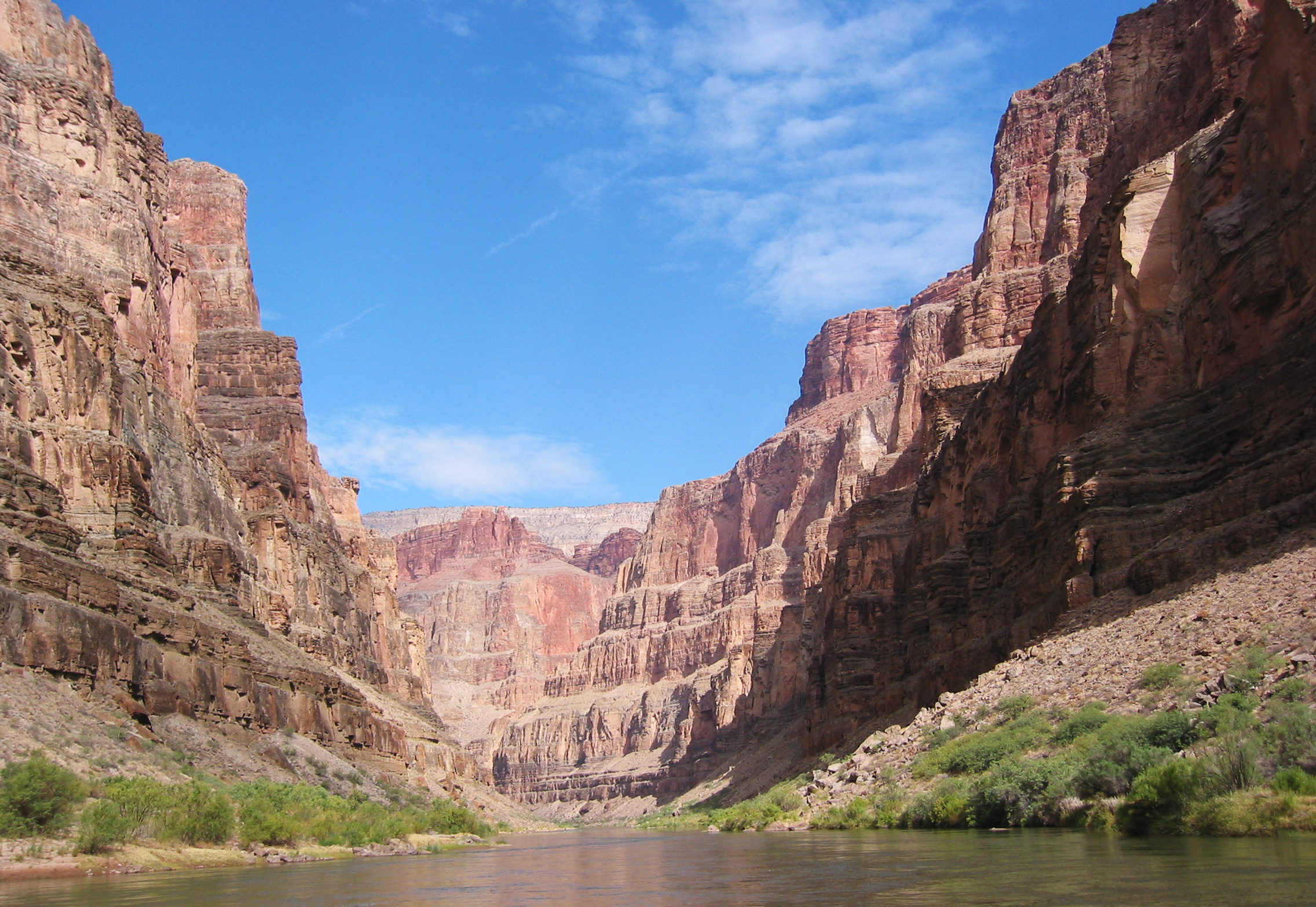 Colorado River in the Marble Canyon section of the Grand Canyon — view from river-level.